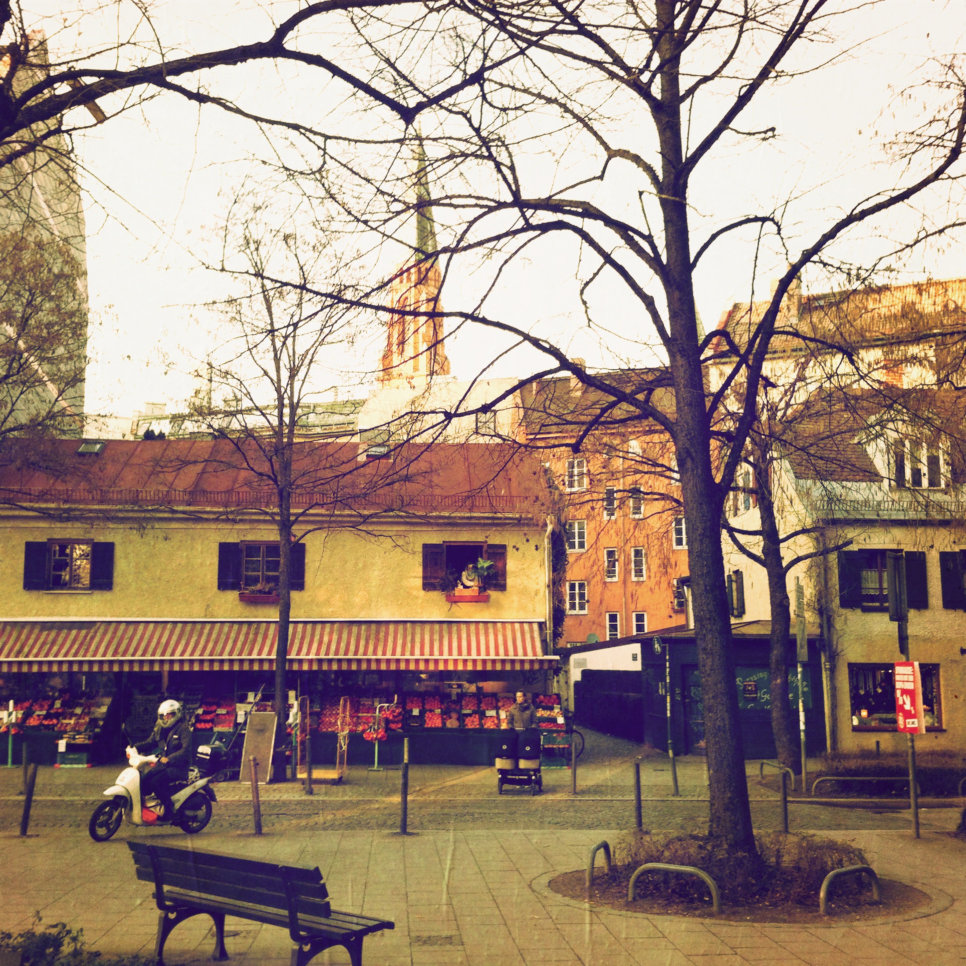 18th century buildings in Preysingstraße in Munich's Haidhausen district.